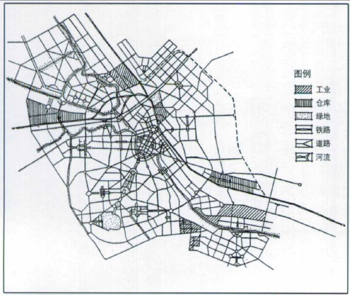 the documents from Government of Tianjin City，P.R.China in 1954